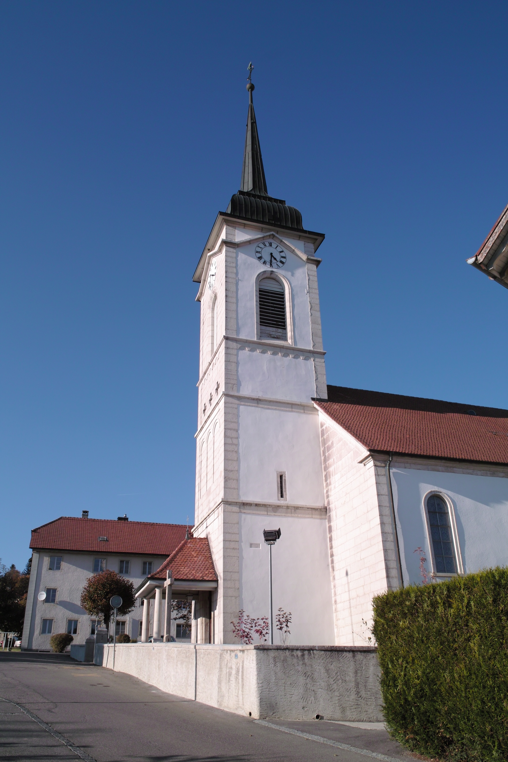 Church of Les Breuleux, canton of Jura, Switzerland.